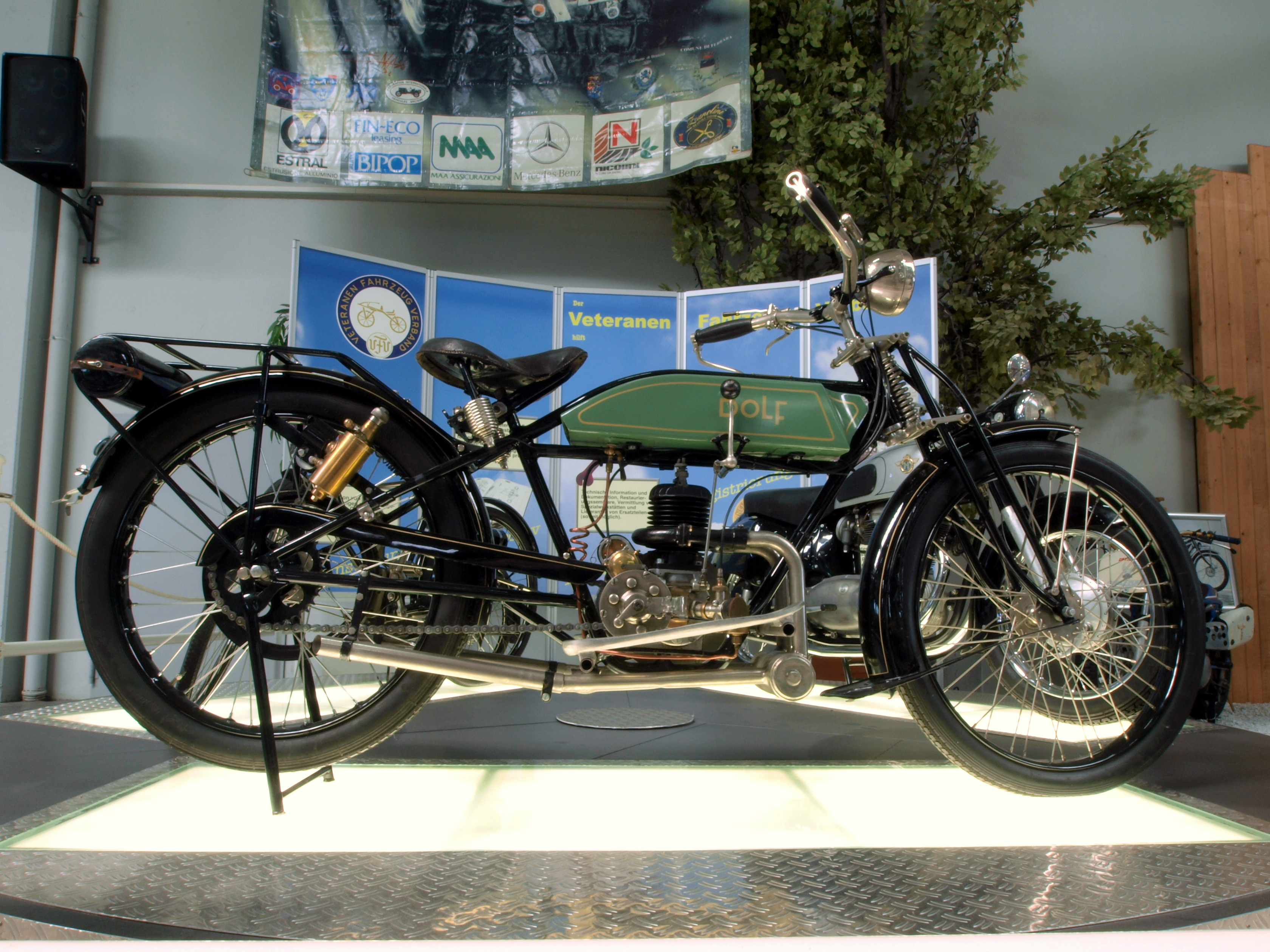 Photographed at the Auto & Technic museum Sinsheim.